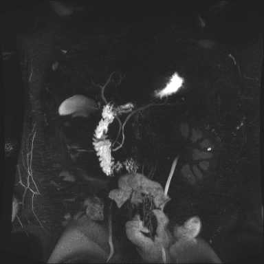 MRCP 3d reconstruction, acquired on 3T NMR